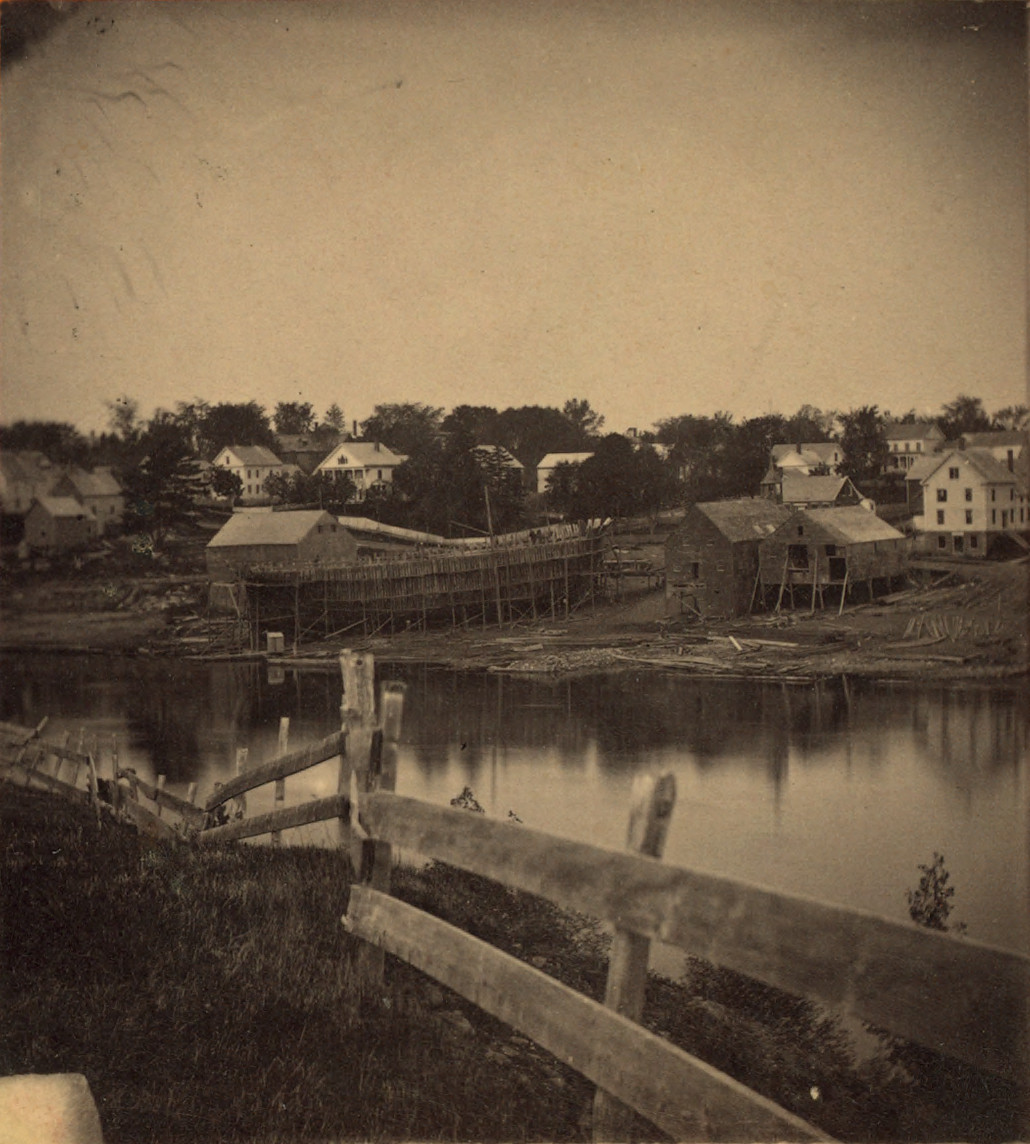 An unidentified shipyard in Richmond, Maine, circa 1870s; from an old stereograph.